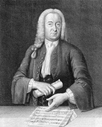 Dutch composer, organist, and violinist Jacobus Nozeman (1693-1745) by Christian Friedrich Fritzsch (ca. 1719-ca. 1774).